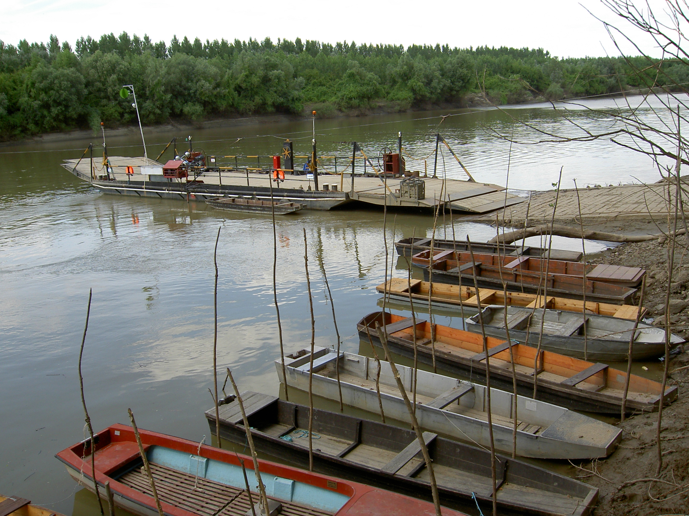 The cable ferry that crosses the river Tisza between Mindszent and Baks, seen on the Mindszent side.